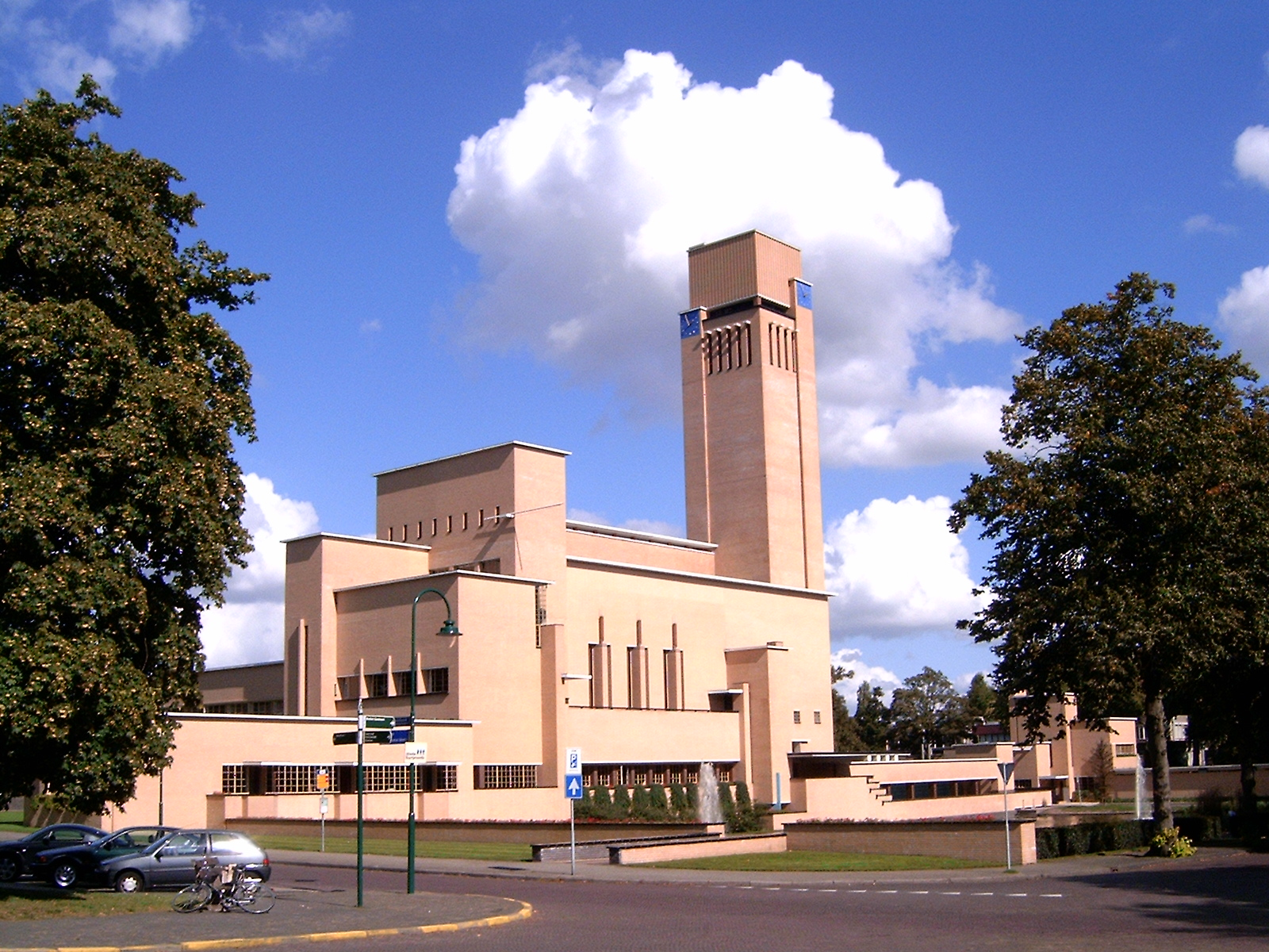 City hall